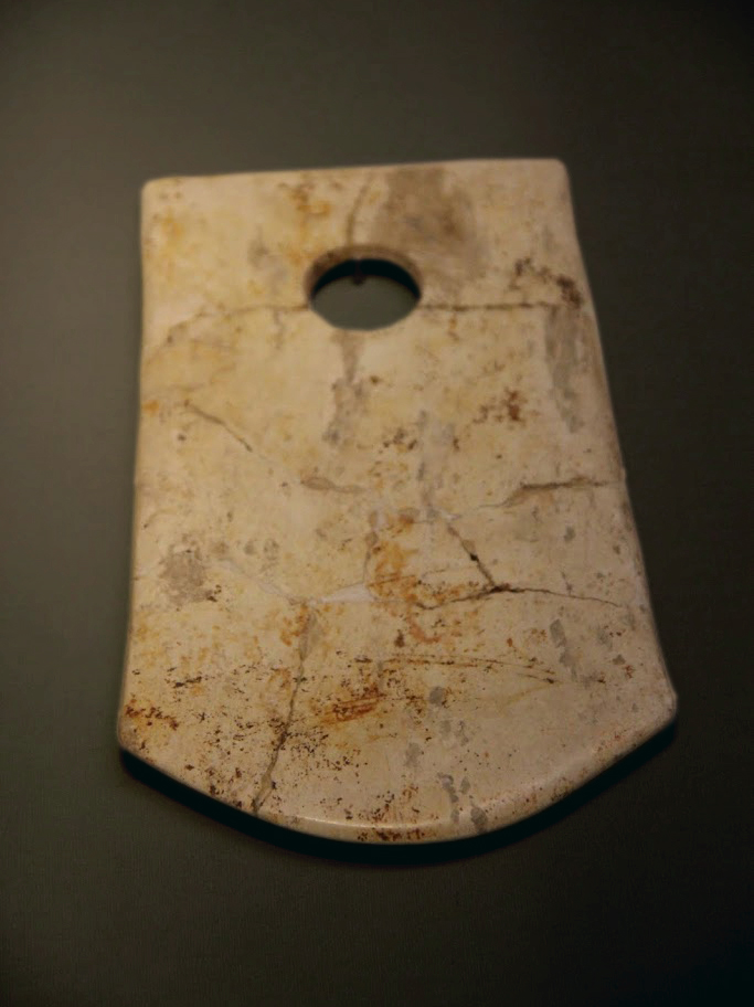 Neolithic jade yue, Liangzhu Culture, Zhejiang, 1987.National Museum of China, Beijing